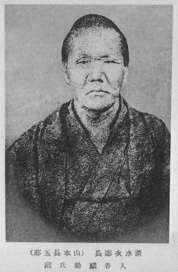 Portrait of Shimizu no Jirocho (清水次郎長, 1820 – 1893)